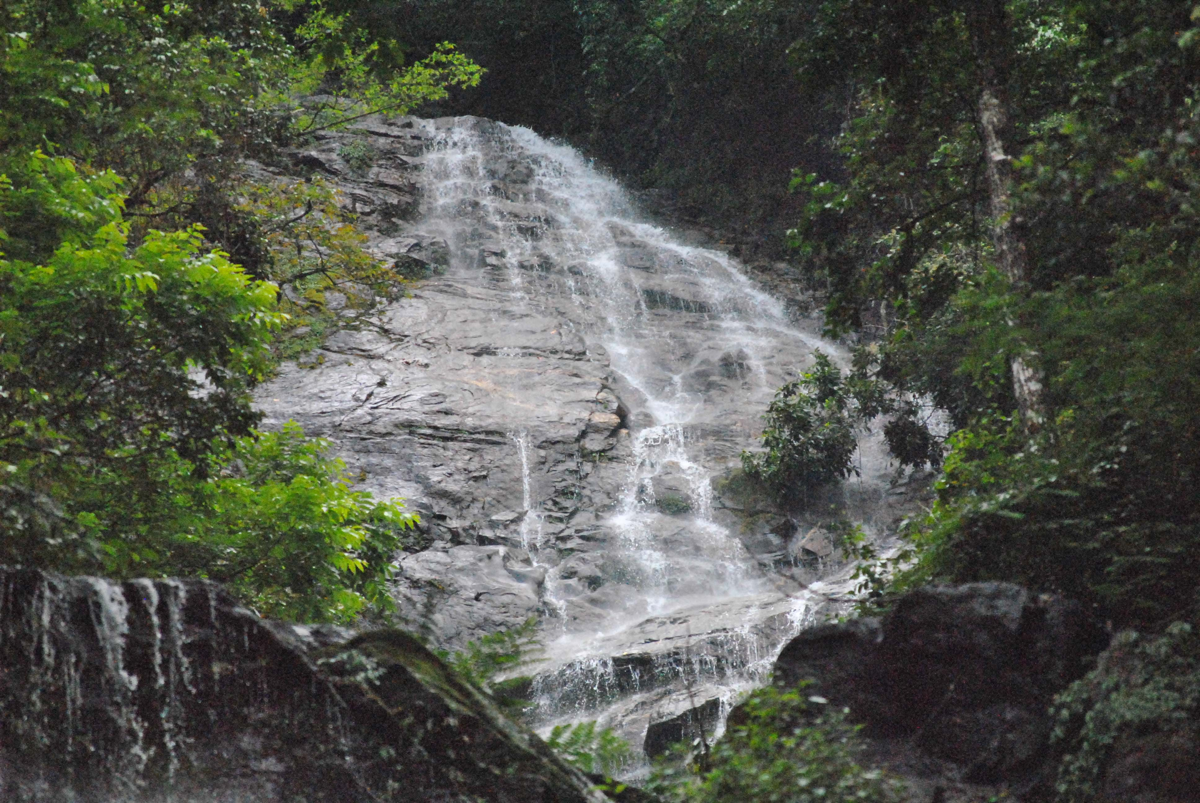 Images from 2010 Sikkim tour